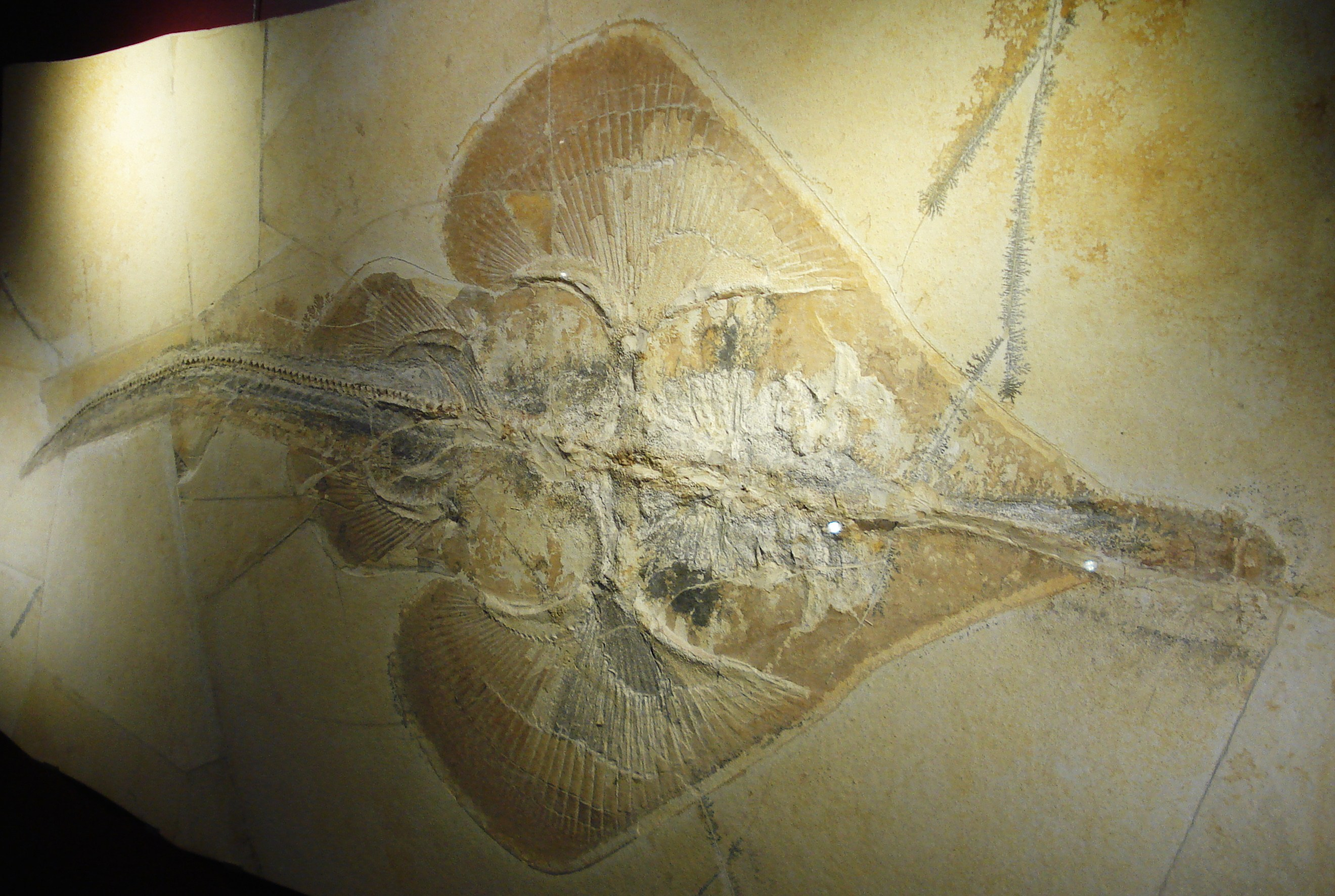 fossil of aellopos (spathobatis)